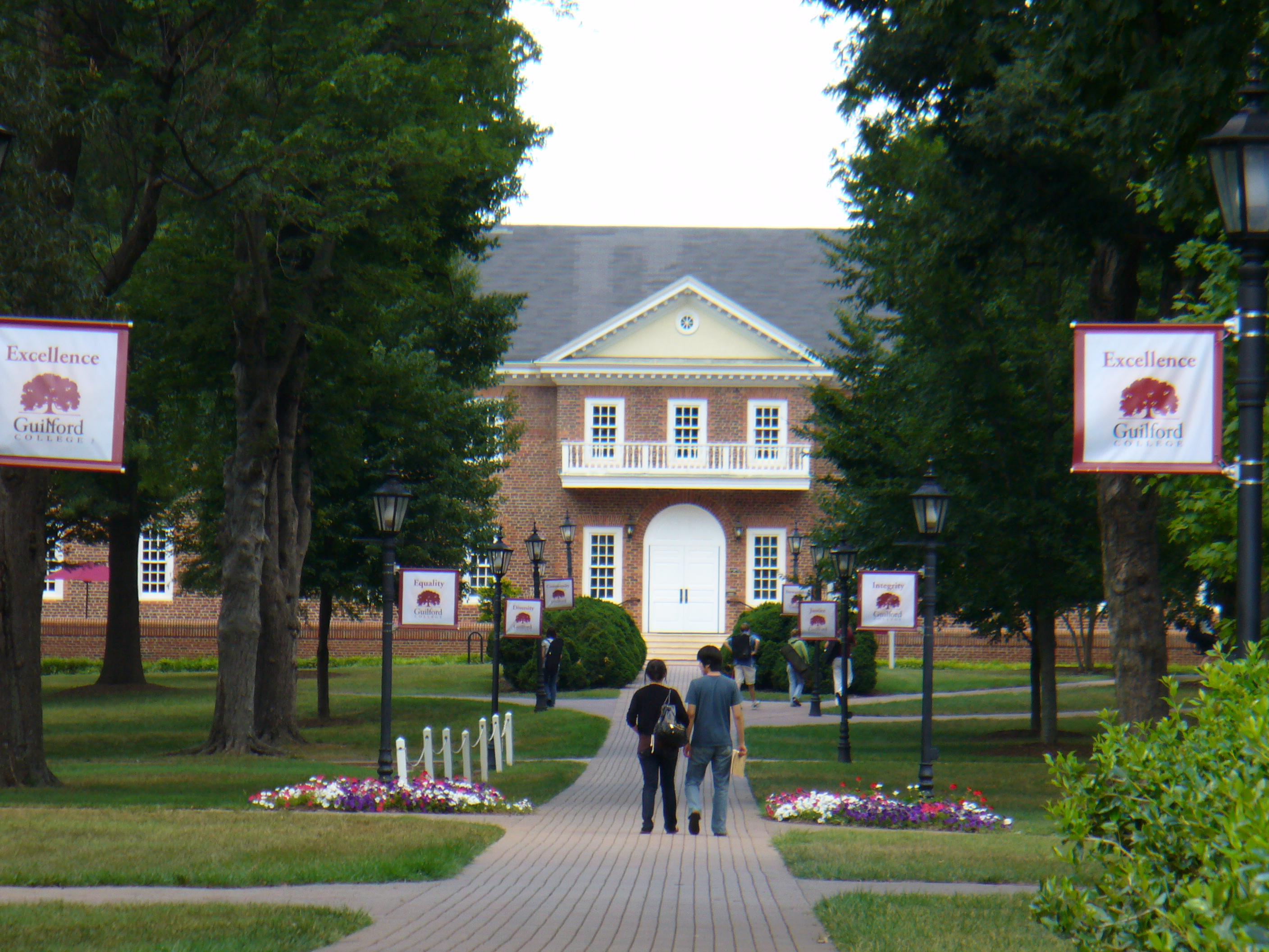 Brick walkway through Guilford College in the southeastern United States